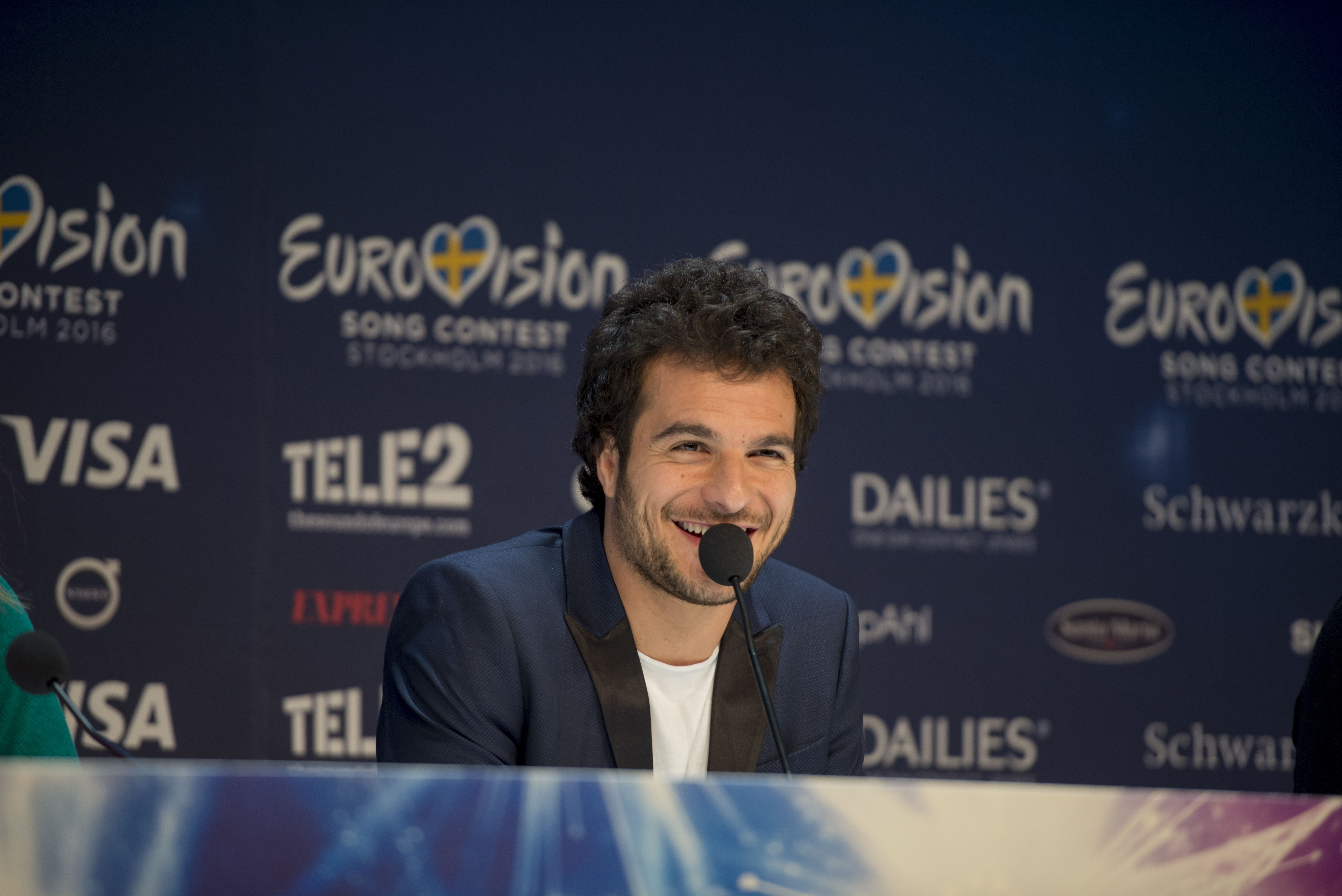 Amir at a Meet & Greet during the Eurovision Song Contest 2016 in Stockholm. (Help translate this text)